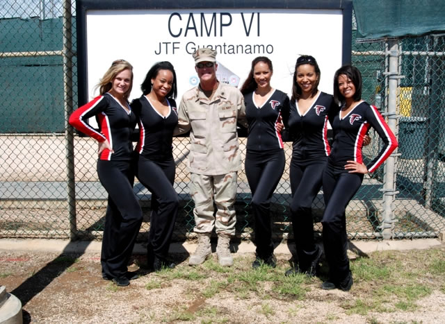 GUANTANAMO BAY, Cuba – Members of the Atlanta Falcons cheerleading squad pose for a photo outside of Camp 6 here, Jan. 26, 2009. The squad visited Joint Task Force Guantanamo facilities to boost morale and sign autographs for the JTF and Naval Station Troopers.